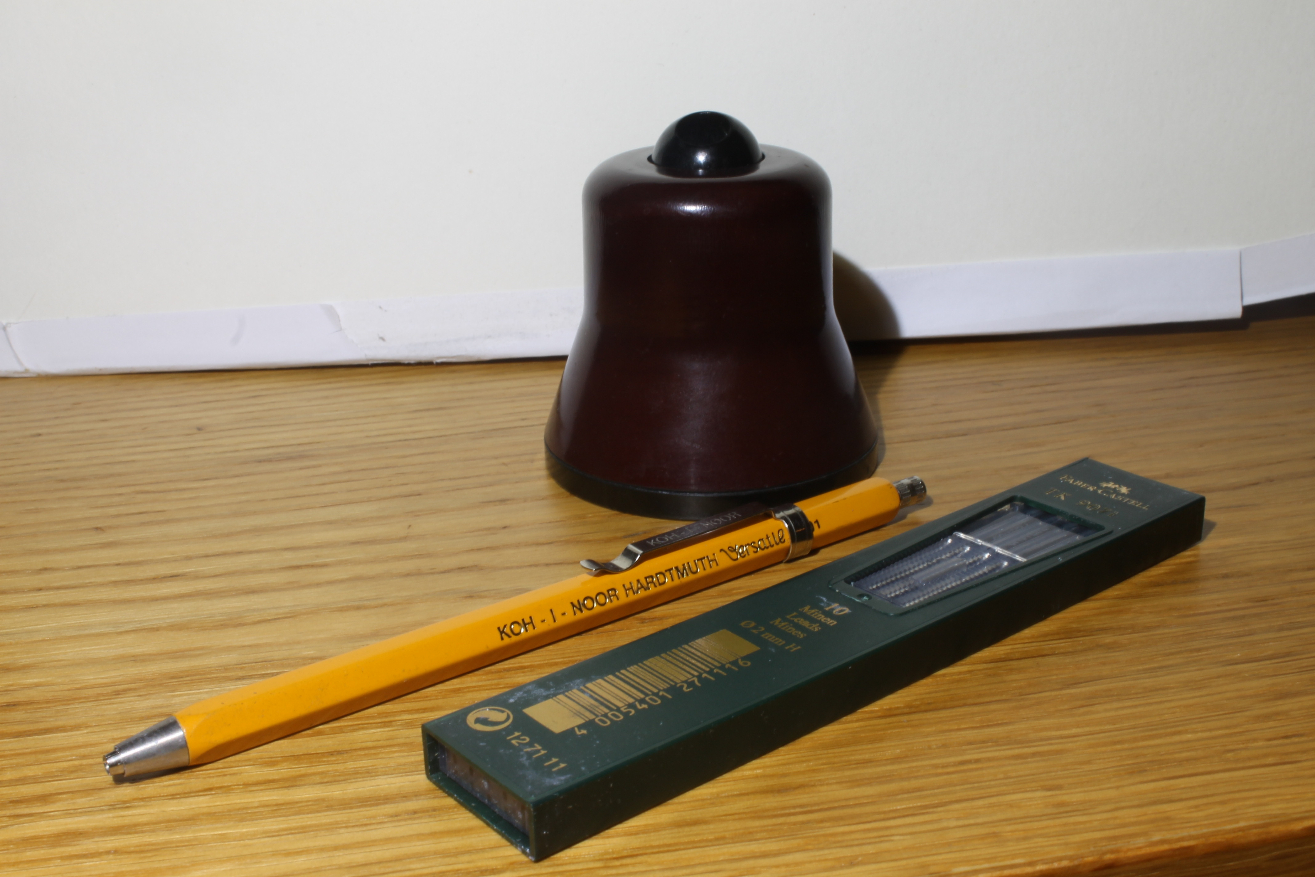 This is a collection of utensils associated with the 2 mm mechanical pencil represented by yellow artefact, by Koh-I-Noor Hardtmuth, with a Faber-Castell H hardness leads container and a vintage sharpener for mechanical pencils marked "BREVETE DANS TOUS LES PAYS" and "SWISS MADE". The sharpener is used by mounting a lead in the mechanical pencil, extending it some 5 mm, inserting the tip of the pen in the hole in the top ball as far as it goes, and moving the protruding end of the pencil in a circular motion. The ball will guide the pencil and lead around the abrasive inner surface of the sharpener, and this grinds the lead into a sharp tip. The sharpener can be divided into its parts by unscrewing the bottom. This releases the ball, and also allows the perhaps unsuspecting user to empty the grounds from sharpening. The pencil and the leads package are recent (circa 2016) acquisitions, while the sharpener stems from the early 1960s.